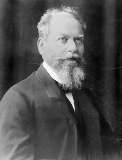 The photograph of German philosopher Edmund Husserl (1859—1938)